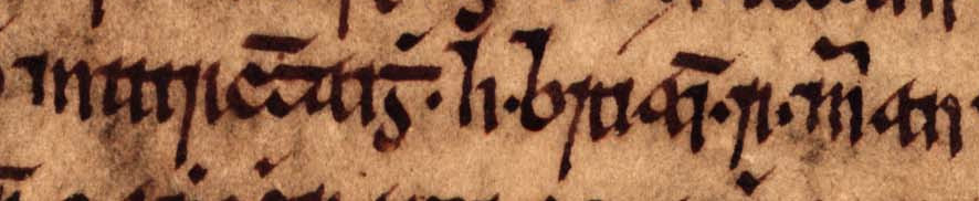 An excerpt from folio 19r of Oxford Bodleian Library MS Rawlinson B 488 (the Annals of Tigernach). The excerpt concerns Muirchertach Ua Briain, King of Munster (died 1119). The excerpt reads "Muirchertaigh h-Úi Bríain, ríg Muman".